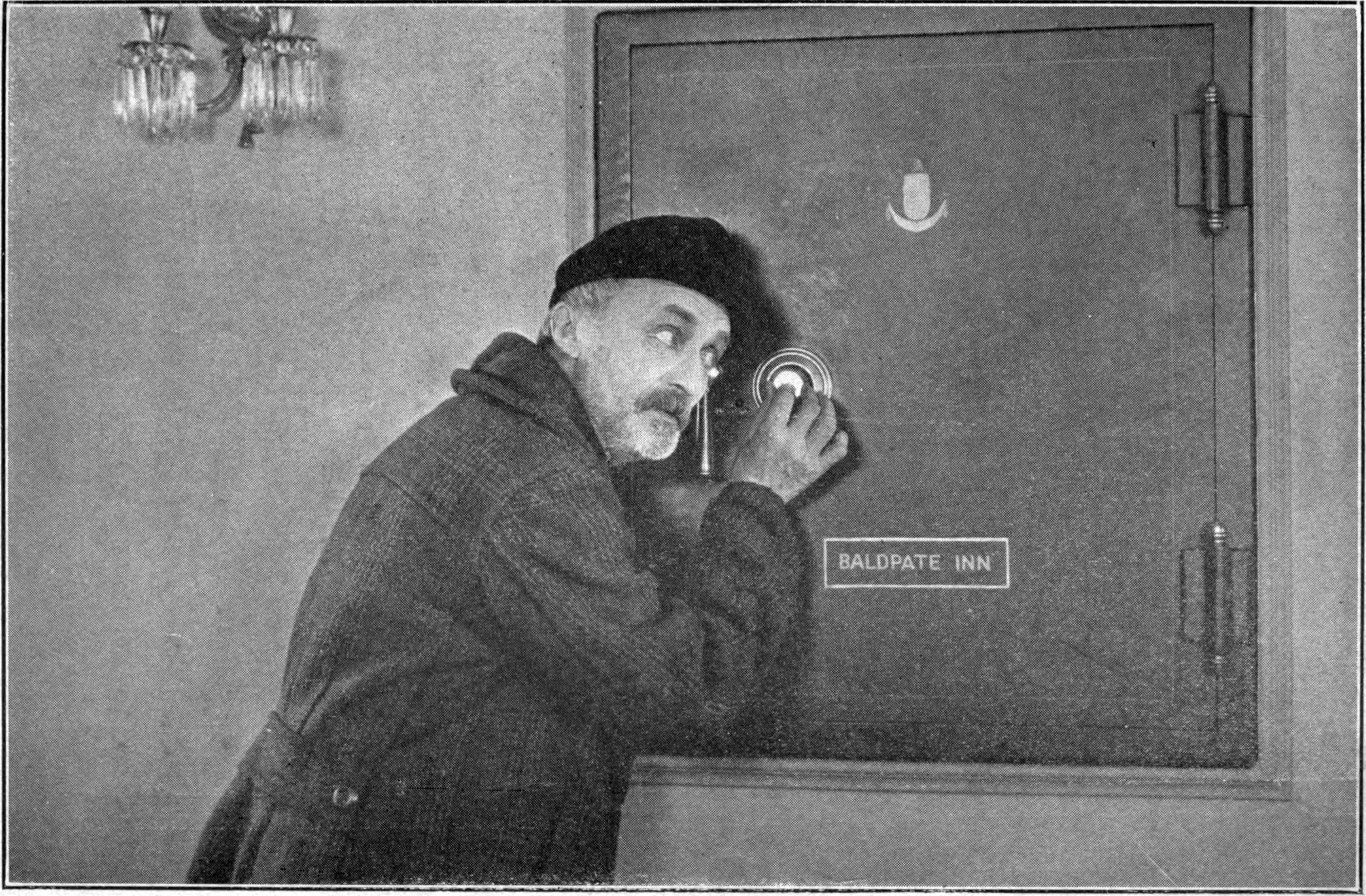 ANOTHER TURN AND THE $200,000 WAS THE HERMIT'S!